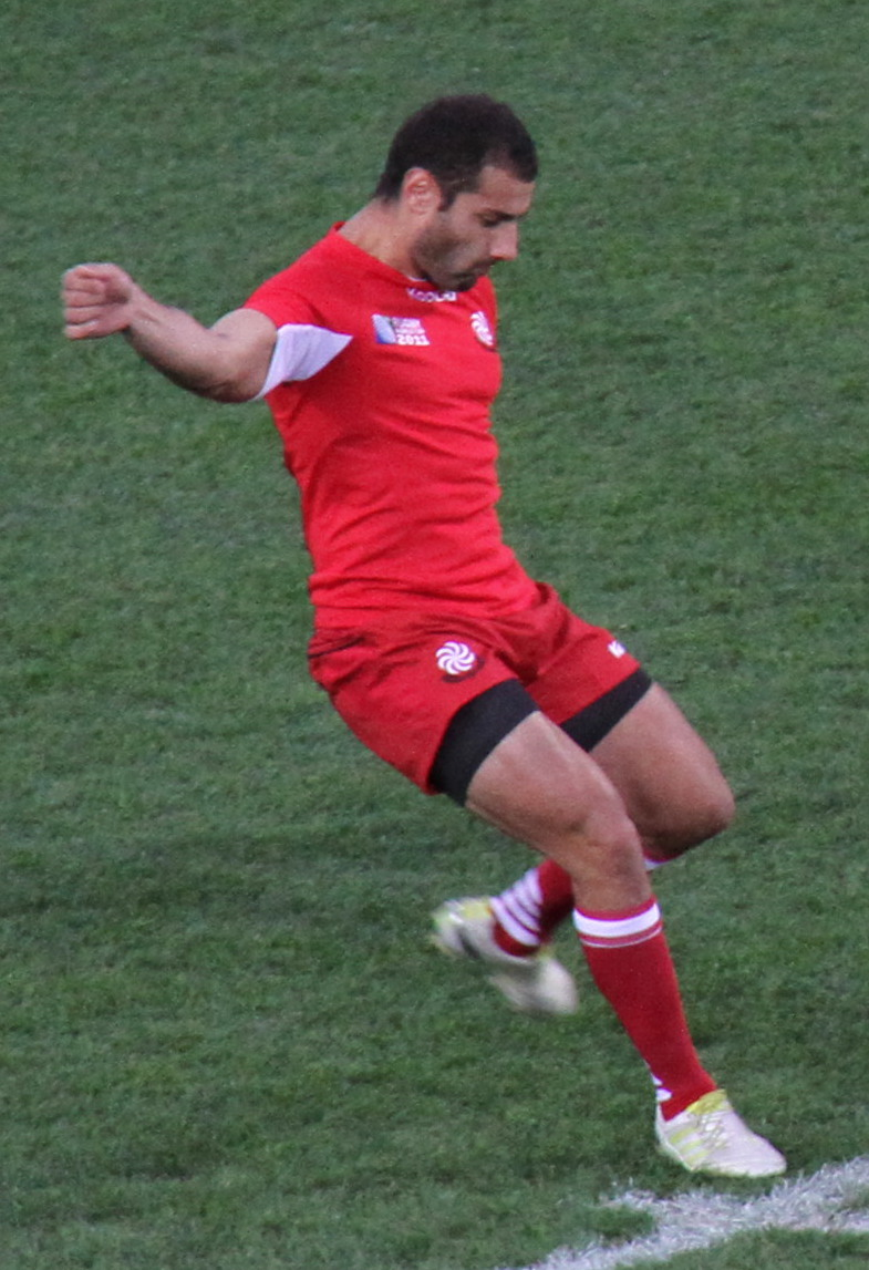 Georgian rugby union player Merab Kvirikashvili during 2011 Rugby World Cup match against England.